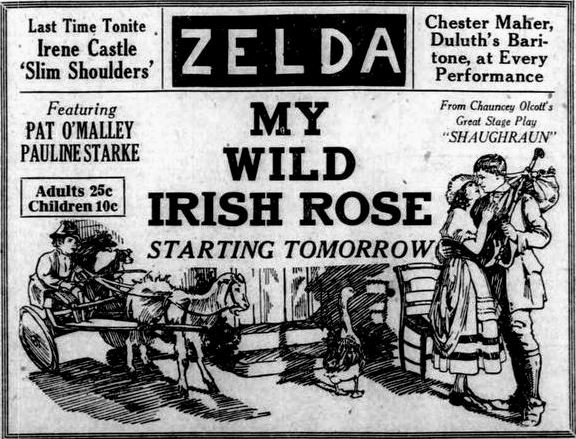 Newspaper advertisement for the American drama film My Wild Irish Rose (1922), on page 23 of the November 17, 1922 Duluth Herald.